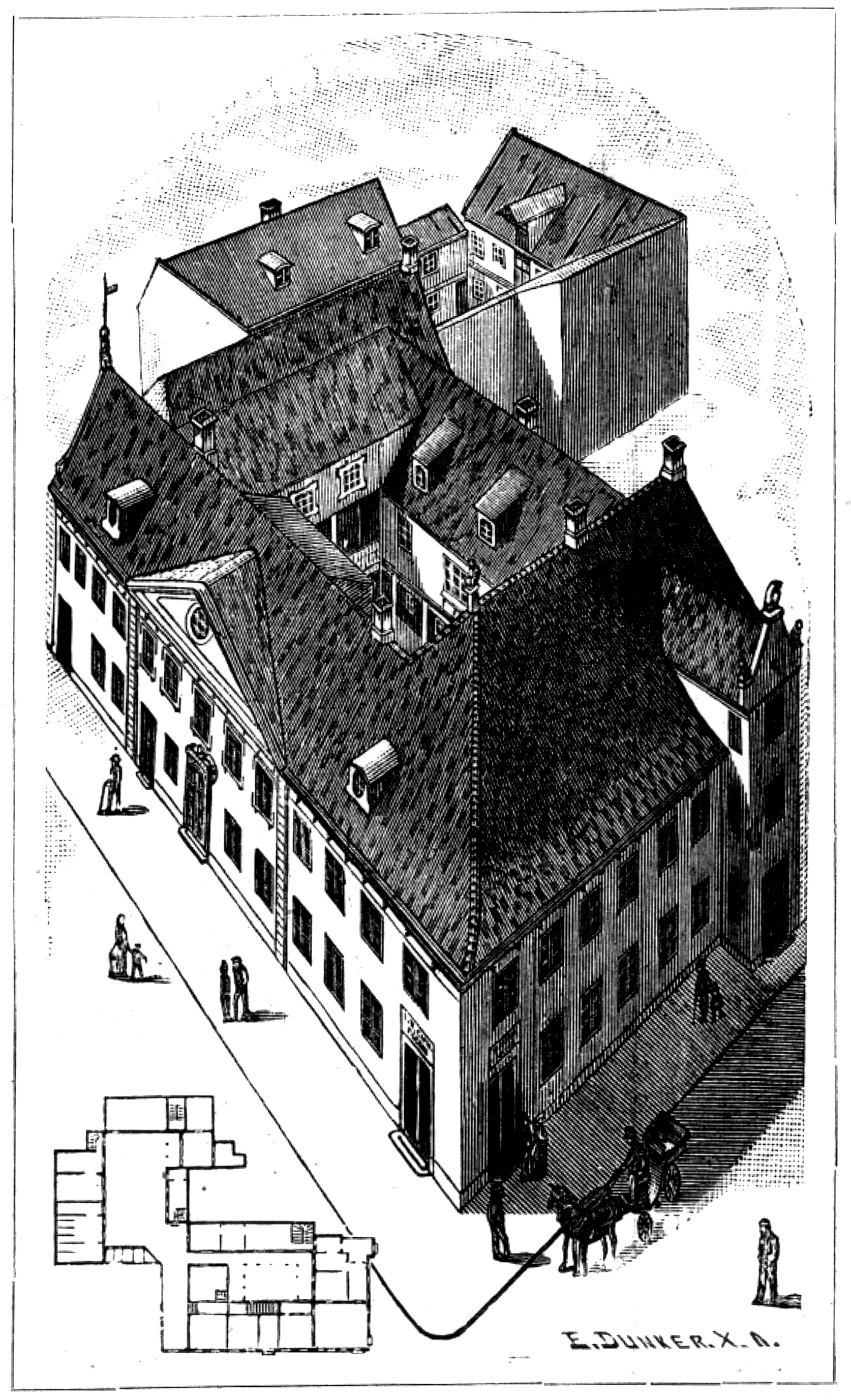 Bird's-eye view of the Collett town house, Kirkegaten 15, Christiania/Oslo. 17th and 18th century.